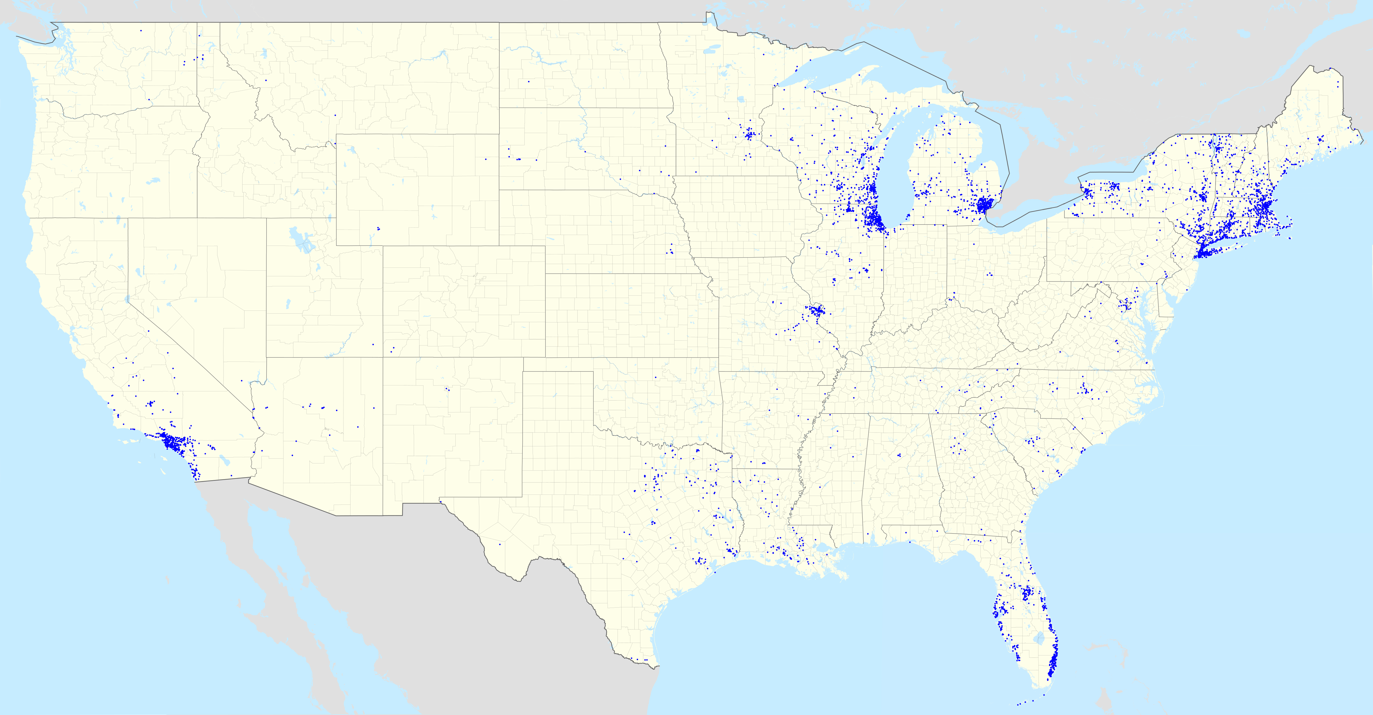 Map of Mobil footprint in the United States as of August 2011.